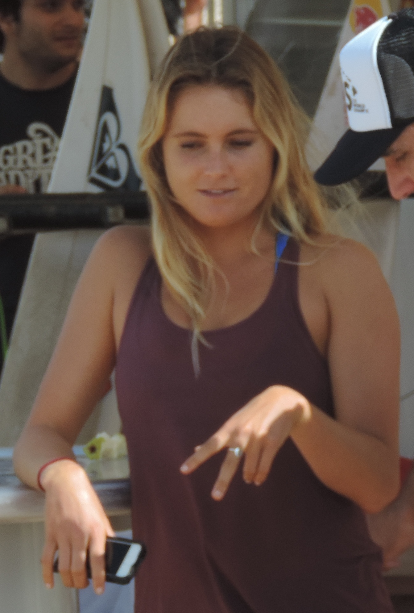 American surfer Alana Blanchard at the EDP Cascais Girls Pro 2013